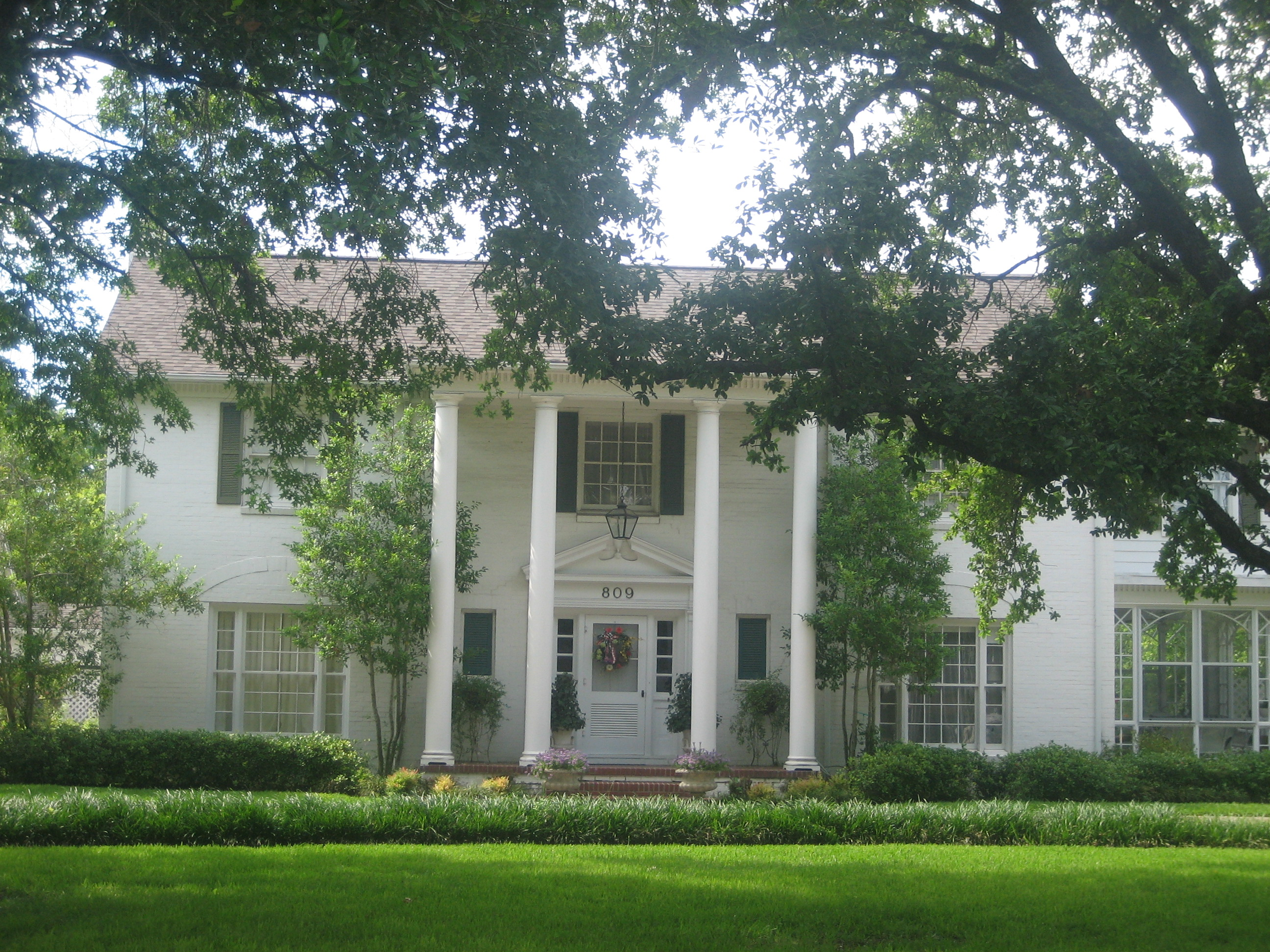 Plantation-style house, numbered 809, somewhere in Madisonville, Texas.